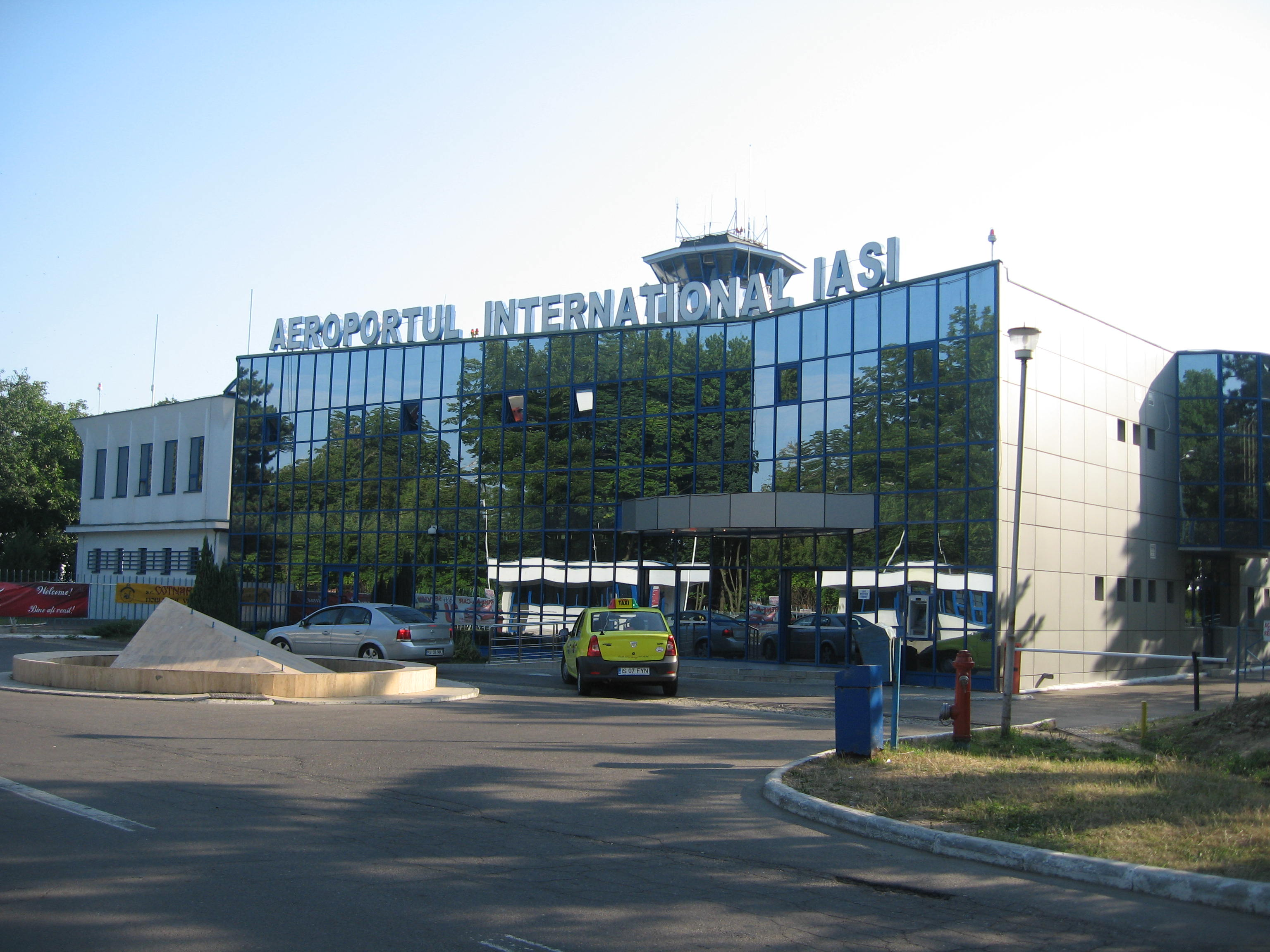 Iaşi Airport